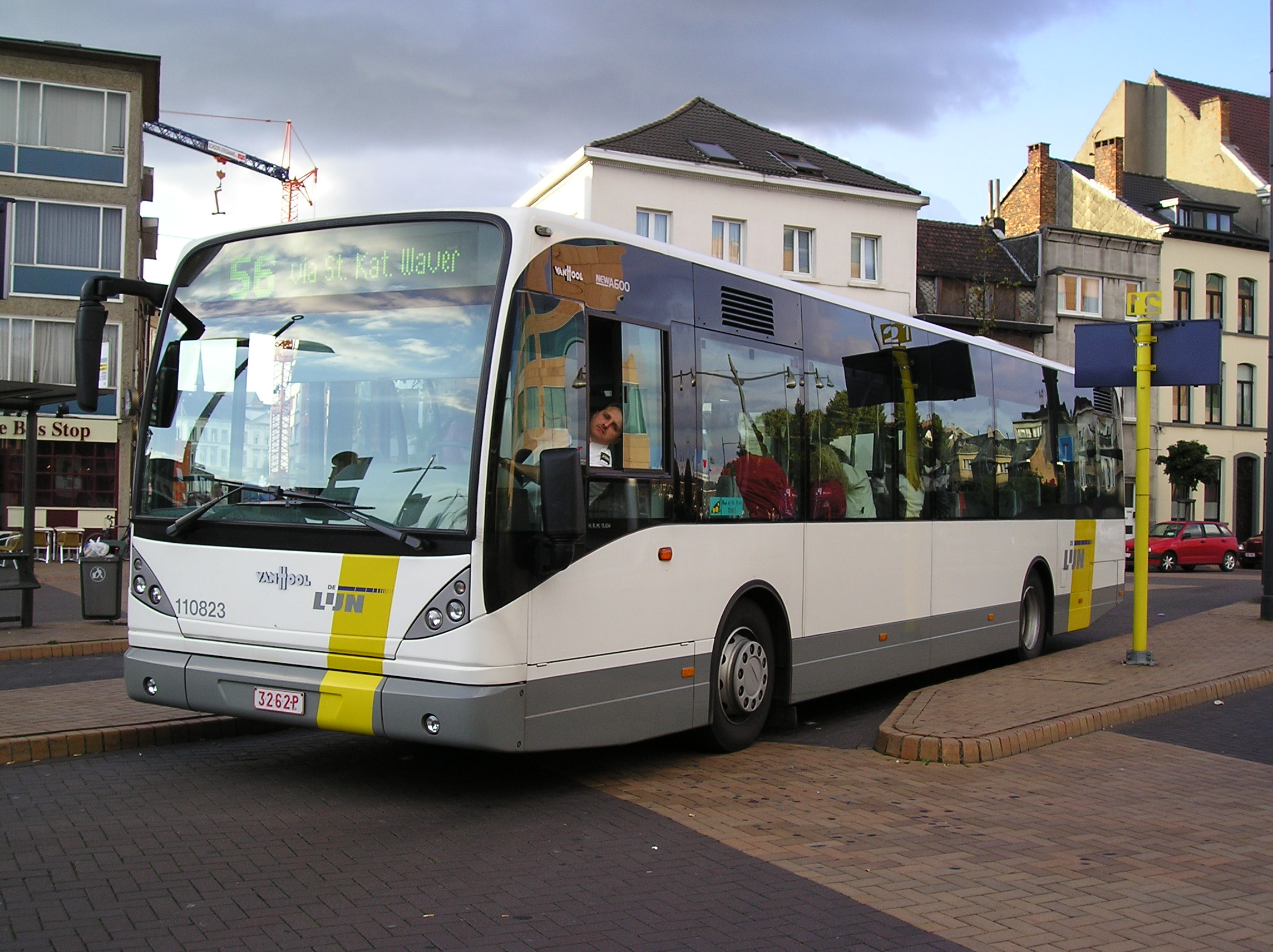 Van Hool bus of the Flemish public transport authority De Lijn in Mechelen, on the train station square.